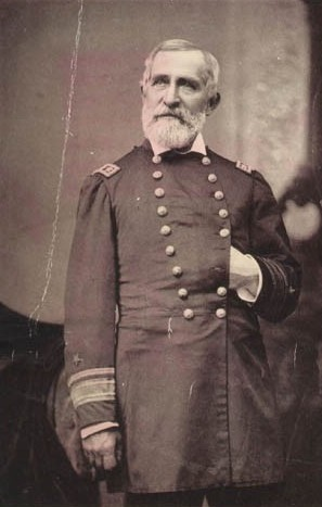 Image of Rear Admiral George Henry Preble dated 1879 in Preble's "History Of The Flag Of The United States Of America, And Of The Naval And Yacht-Club Signals, Seals, And Arms, And Principal National Songs Of The United States, With A Chronicle Of The Symbols, Standards, Banners, And Flags Of Ancient And Modern Nations. Second Edition Revised. Illustrated With Ten Colored Plates, Two Hundred Engravings On Wood, And Maps And Autographics.' Boston: A. Williams and Company, 1880.